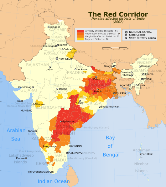 The Red Corridor in 2007. A relatively underdeveloped region in eastern India that has Naxalite communist militant activity.